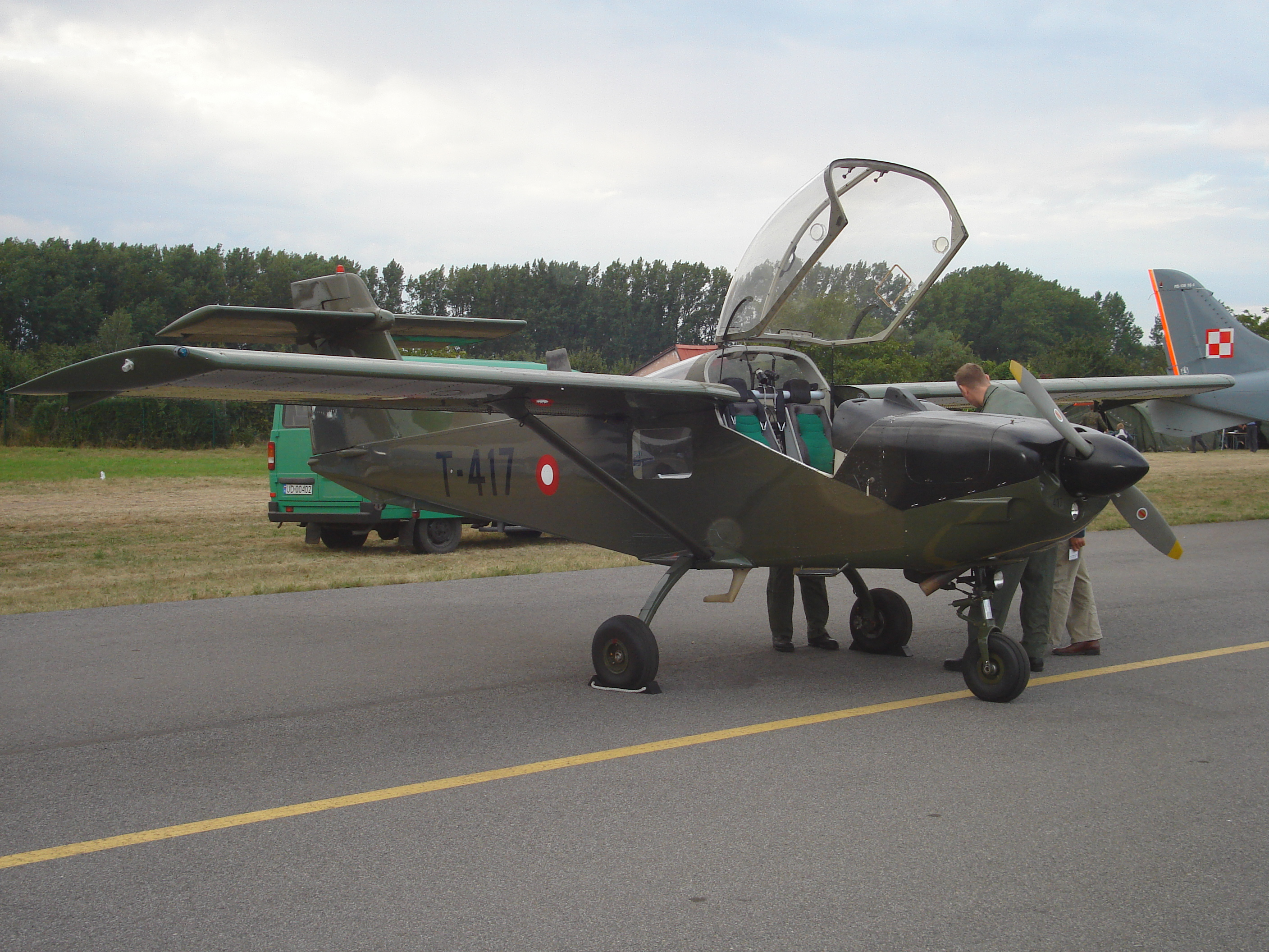 Picture of Saab MFI-17 Supporter, Radom Air Show 2007